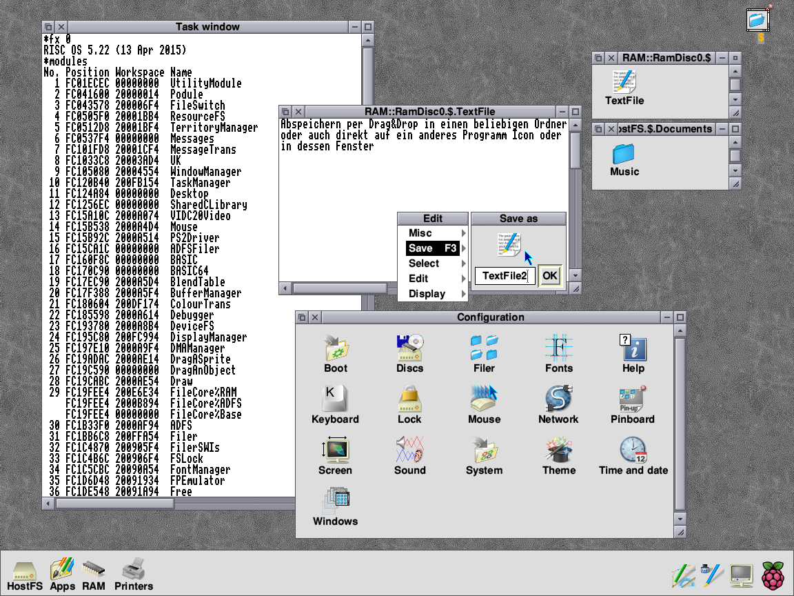 Demonstration of Drag&Drop and Modules in RISC OS v522